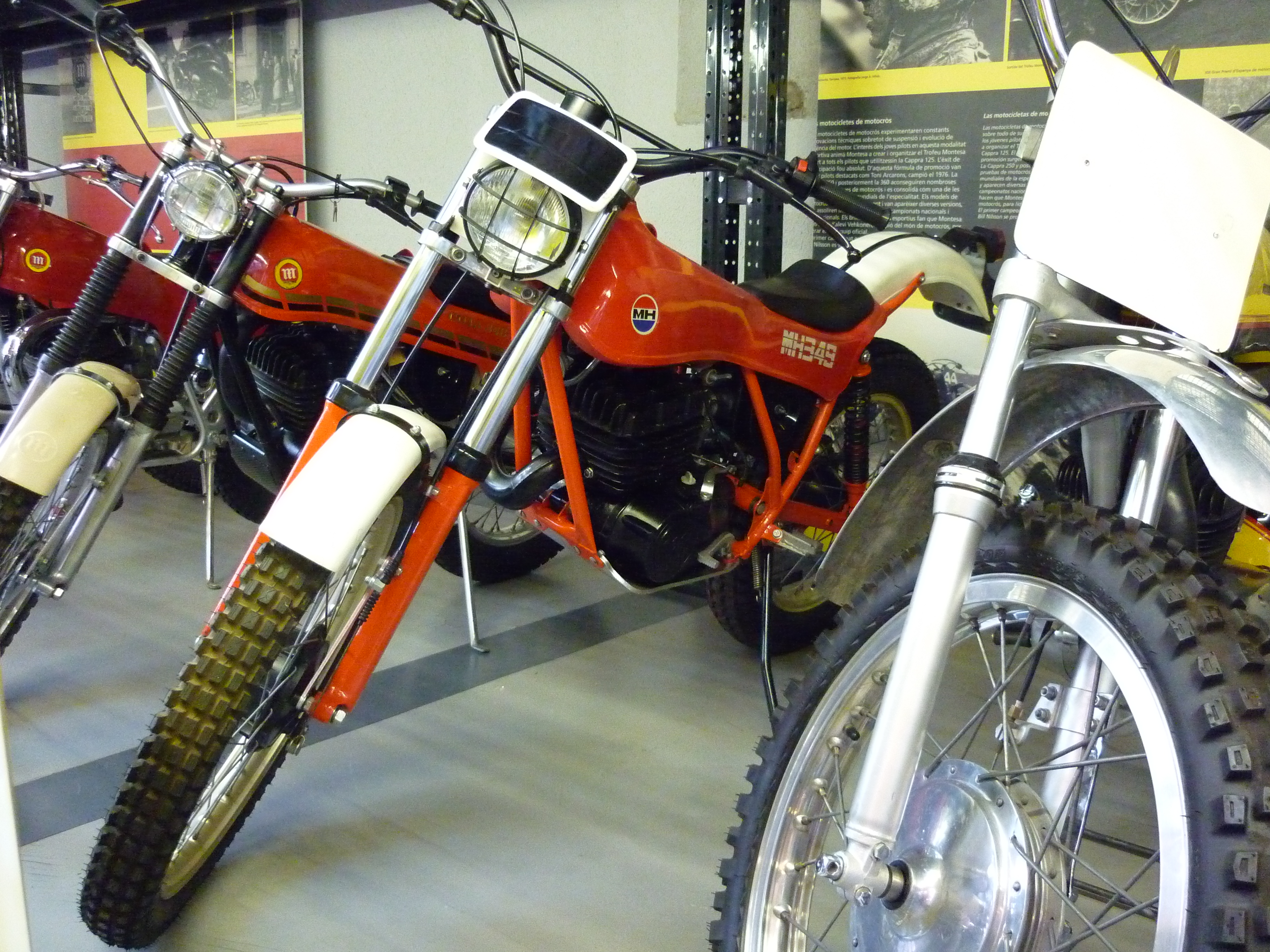 Montesa Cota MH 349 (1982). MH stands for "Montesa Honda".